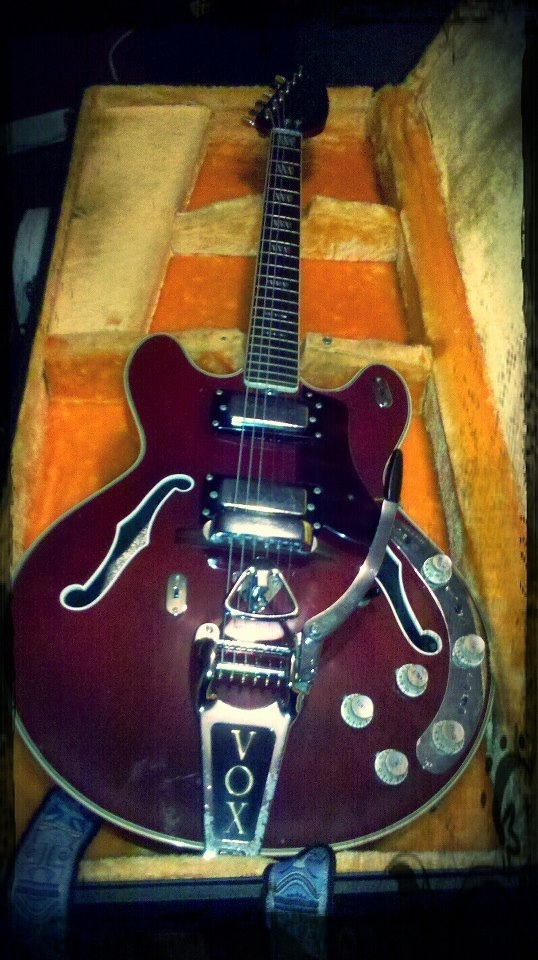 1968 Vox Ultrasonic guitar in cherry red finish